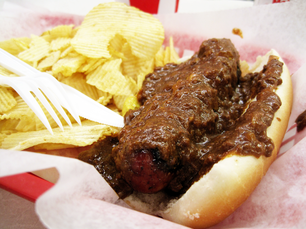 Chili half-smoke at Ben's Chili Bowl, Washington, D.C.